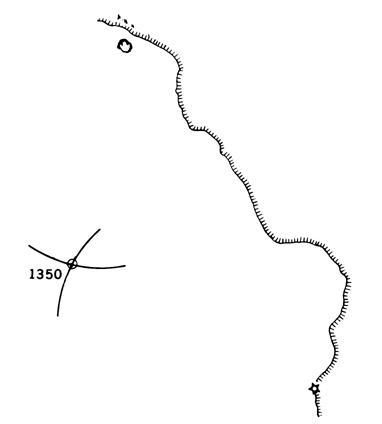 figure 811b of APN2002